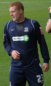 Nicky Bailey southends player of the season 2007-08